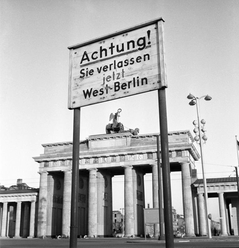 Brandenburg Gate, Berlin. View from the west, with a sign: Caution! You are now leaving West Berlin